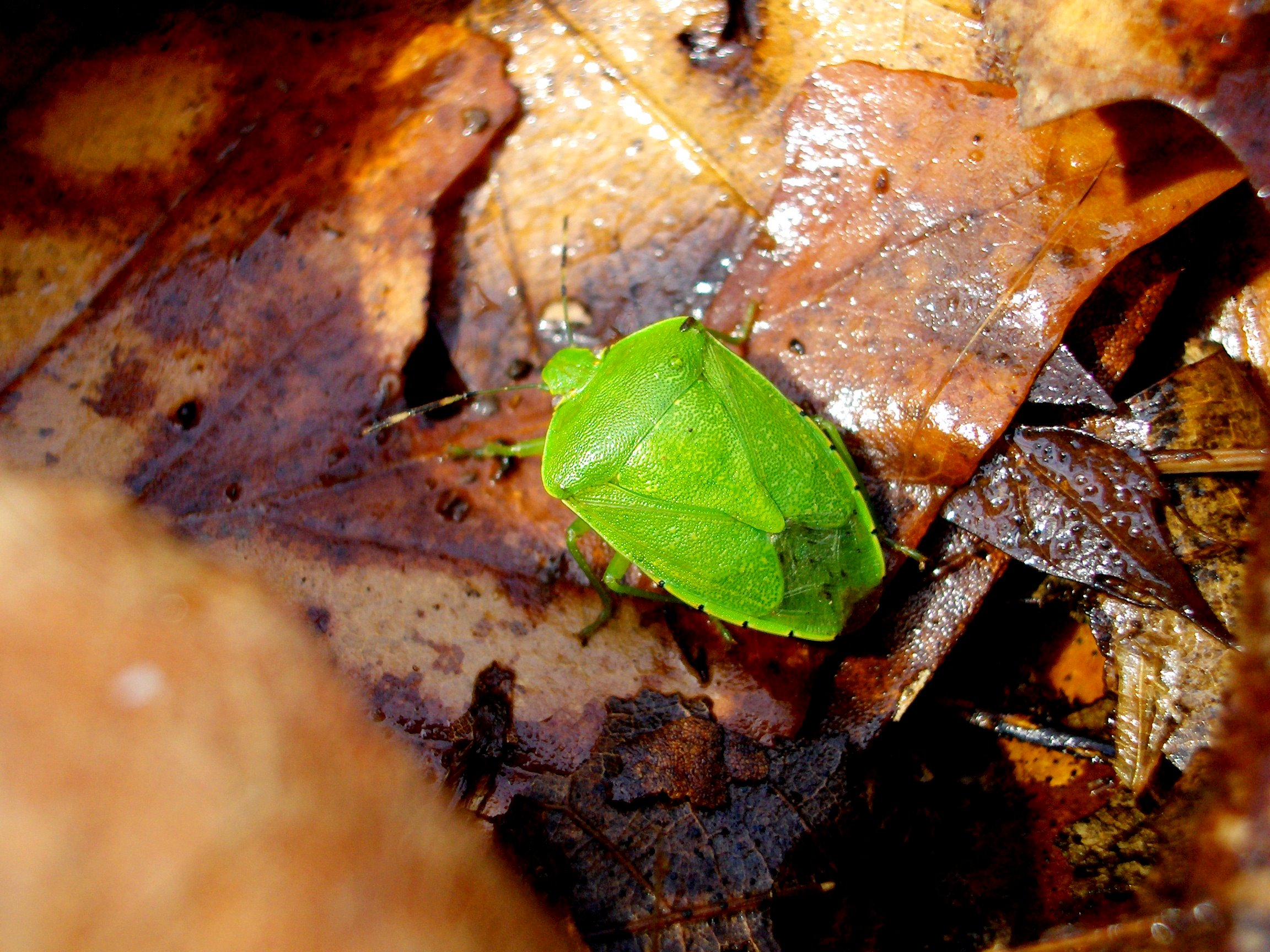 Acrosternum hilare - the green stink bug. It was the first warm day in spring (80 degrees!), so I had to take a 2 hour 'lunch break' and look for mushrooms. Found a couple of dried out polypores scattered around. Desperate, I thought I'd try looking under some of the leaf litter and came across this bright green fella.